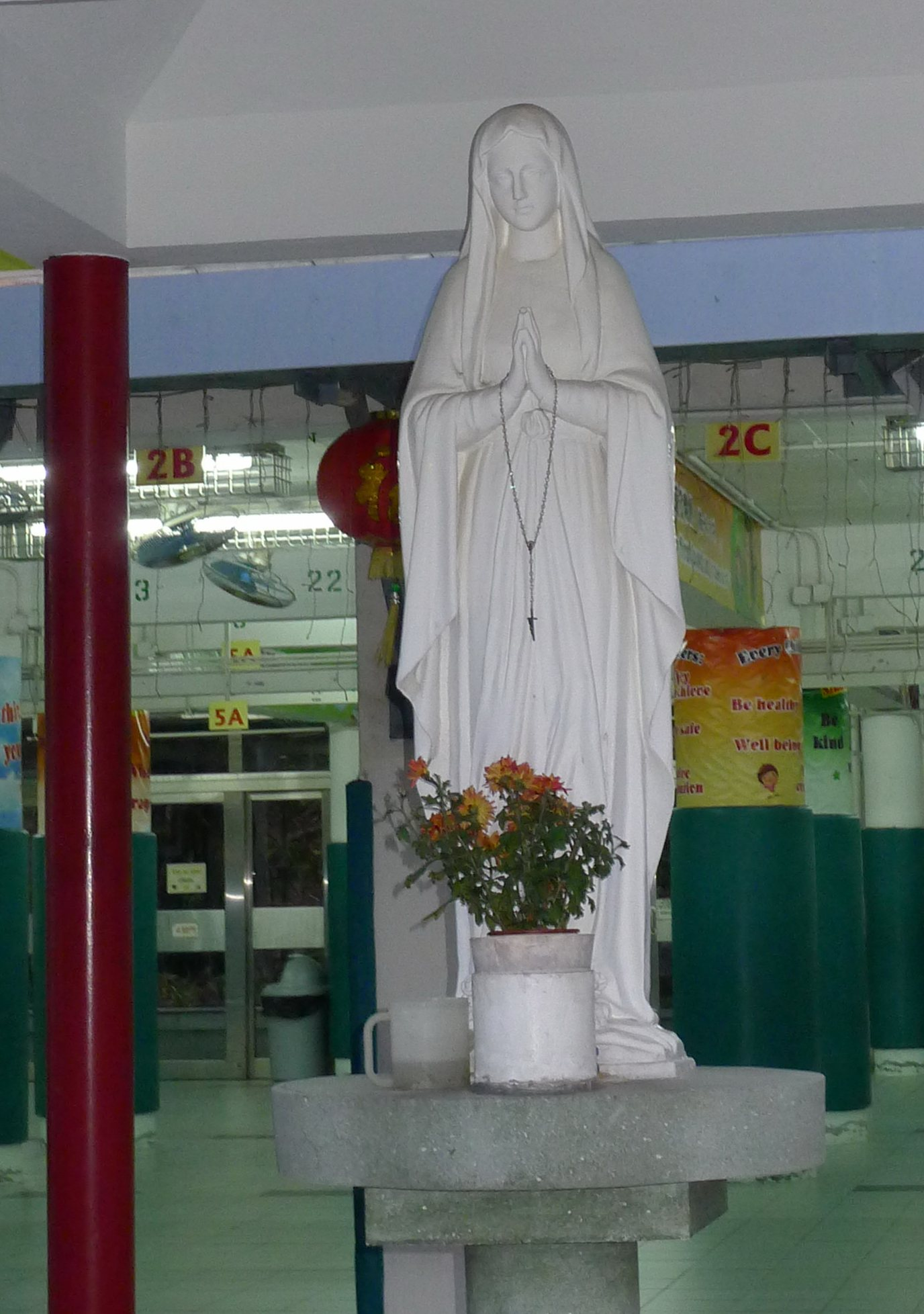 Statue of Our Lady in Chai Wan Kok Catholic Primary School, moved over from Pope Pius XII Primary School